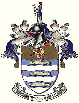 Coat of Arms for the borough of Worthing, designed by Mr TR Hide in 1890. The coat of arms includes three silver mackerel, a Horn of Plenty overflowing with corn and fruit on a cloth of gold, and the figure of Hygieia (the Ancient Greek goddess of health) holding a snake. They represent the health given from the seas, the fullness and riches gained from the earth and the power of healing. The motto is the Latin Ex terra copiam e mari salutem, which translates as 'From the land plenty and from the sea health'.